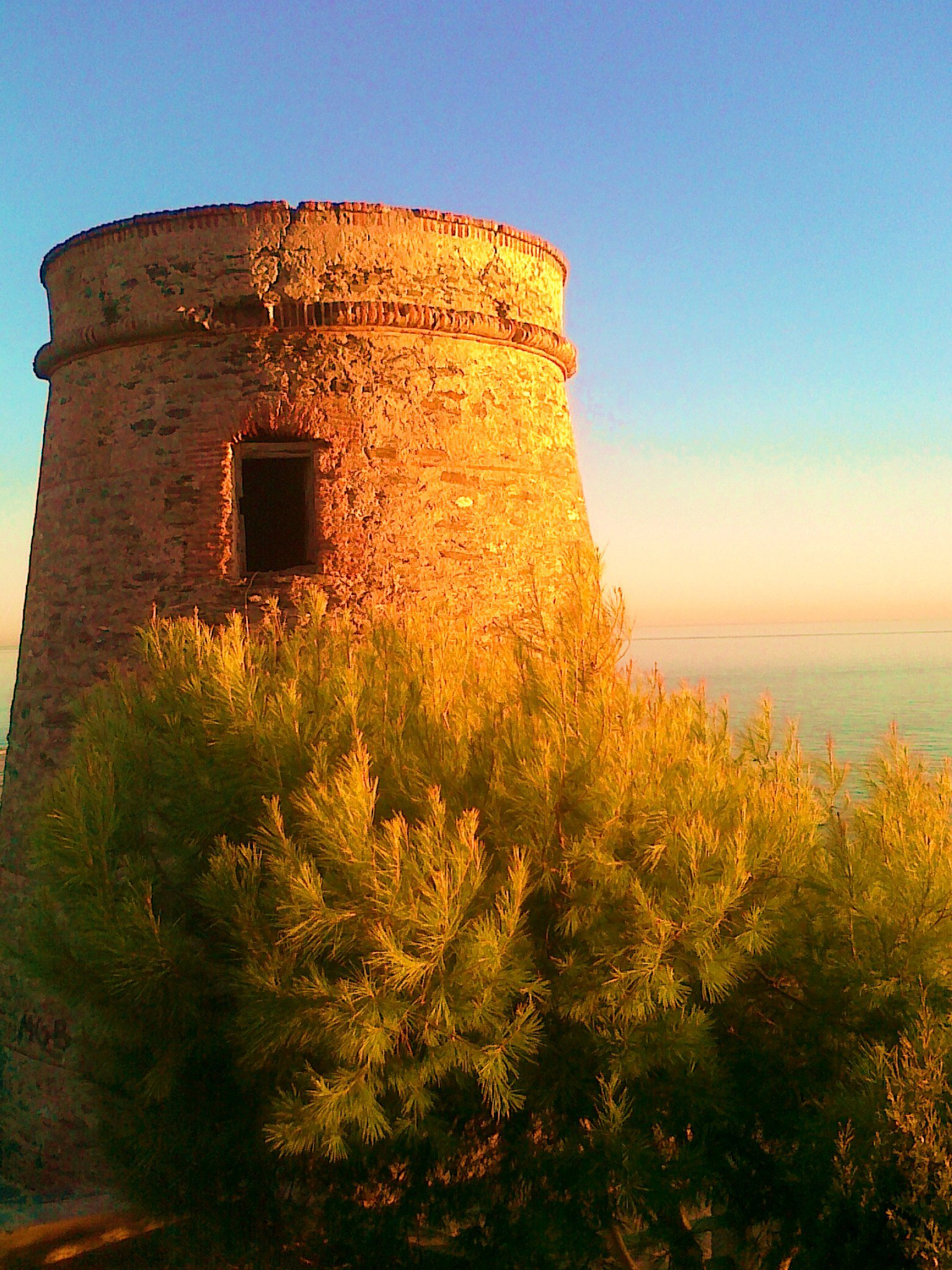 Tower of La Rabita